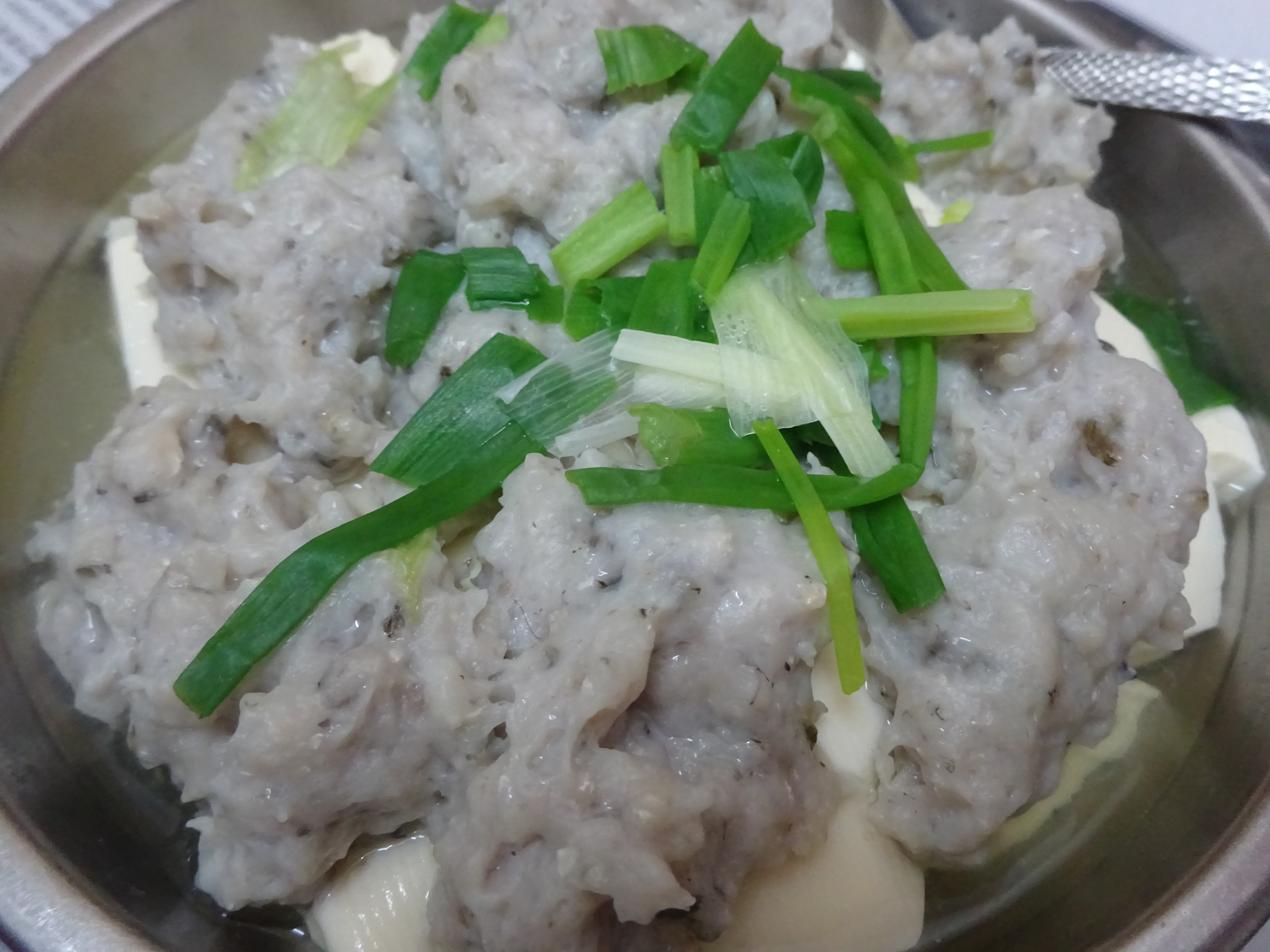 food steamed Minced mud carp 鯪魚 Dace fish meat 肉魚 Bean Curd Tufo product 豆腐製品 Chinese spring onion